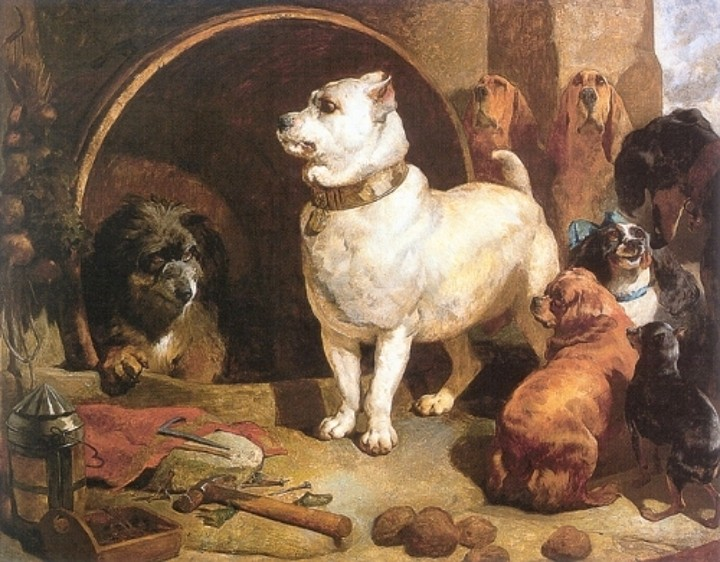 Sir Edwin Henry Landseer, Alexander and Diogenes, exhibited 1848. Oil on canvas. Tate collection, London